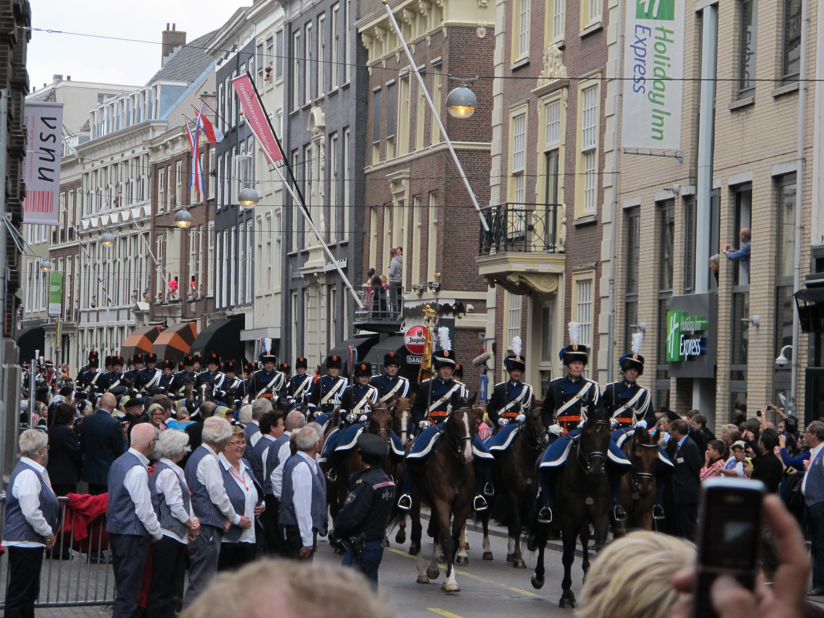 Prinsjesdag 2013 - Royal Tour at Plein, The Hague